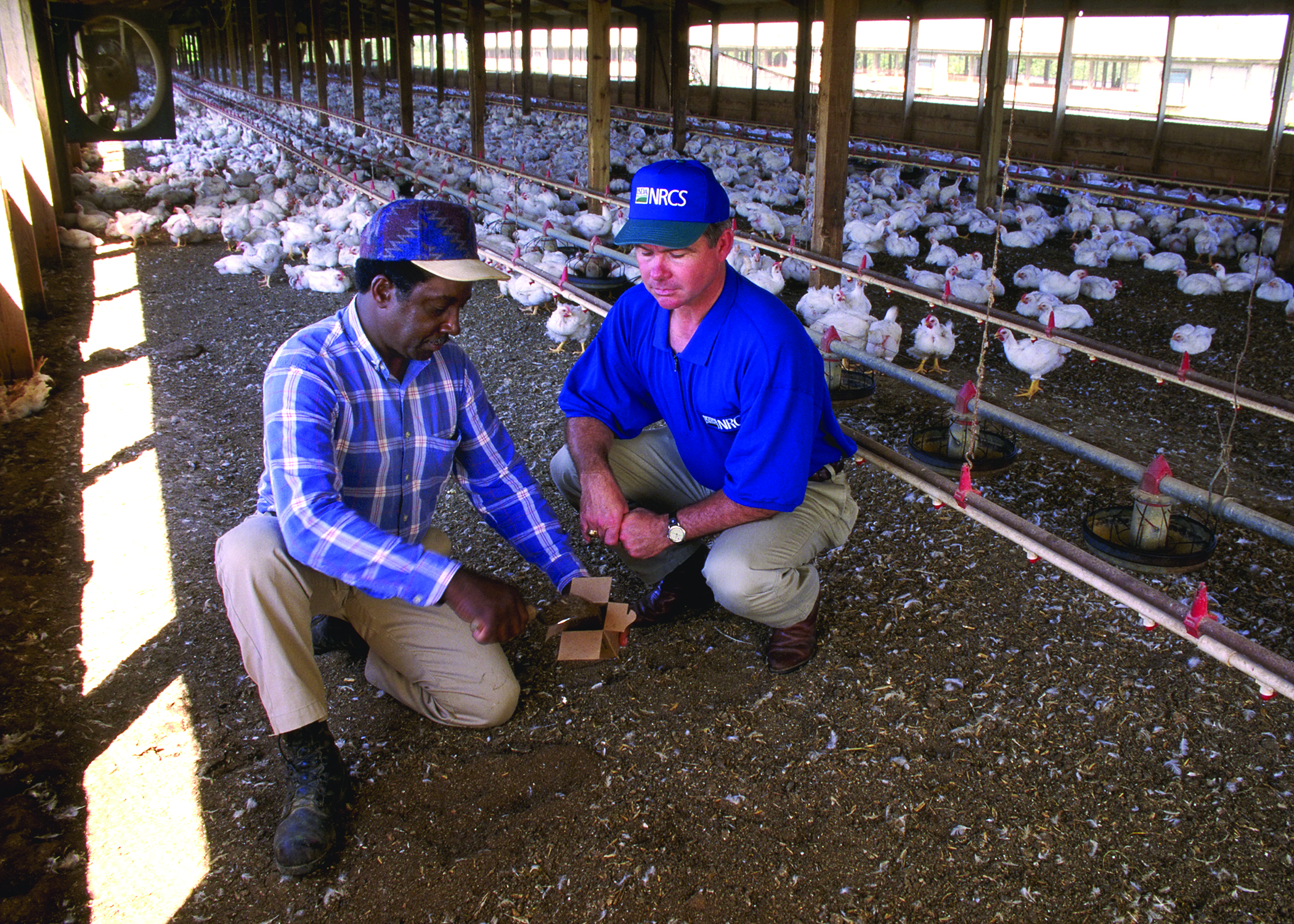 Farmer and Craig Odell (right), NRCS District Conservationist, discuss the benefits of composting chicken manure. Farmer is collecting a sample for nutrient analysis. [Slide 97CS3121]